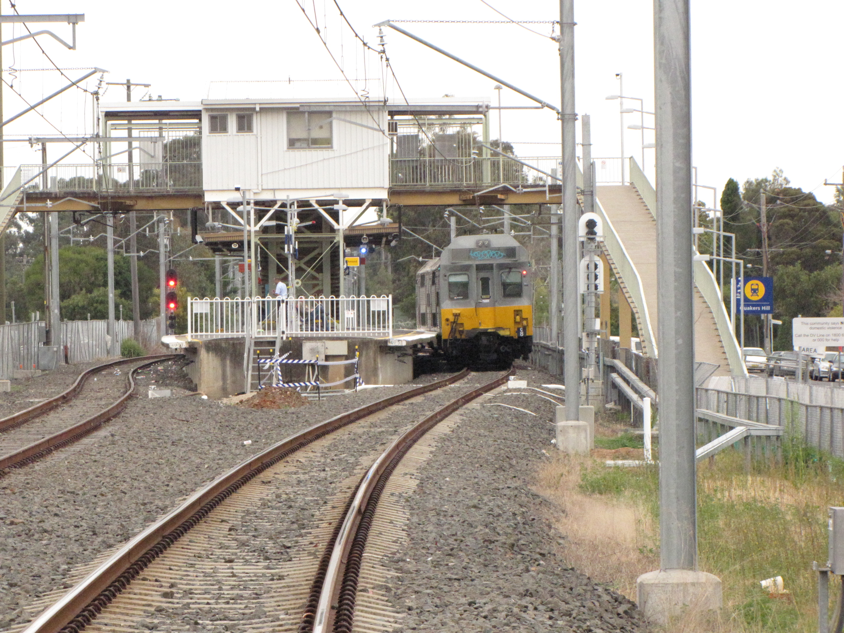 Quakers Hill railway station from the former pedestrian level crossing. A four car C set waits ready to commence a Cumberland line service.